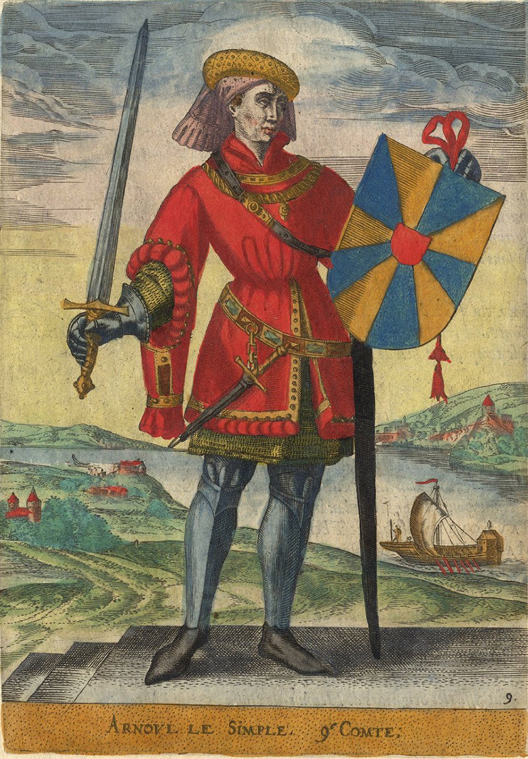 Arnulf the Simple, count of Flanders